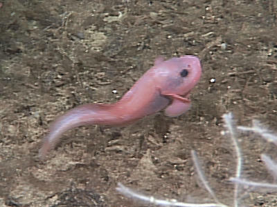 Juvenile abyssal snailfish (Careproctus ovigerum Syn. Careproctus ovigerus) and white-branched sponge (Asbestopluma sp.) on the Davidson Seamount at 1324 meters depth.